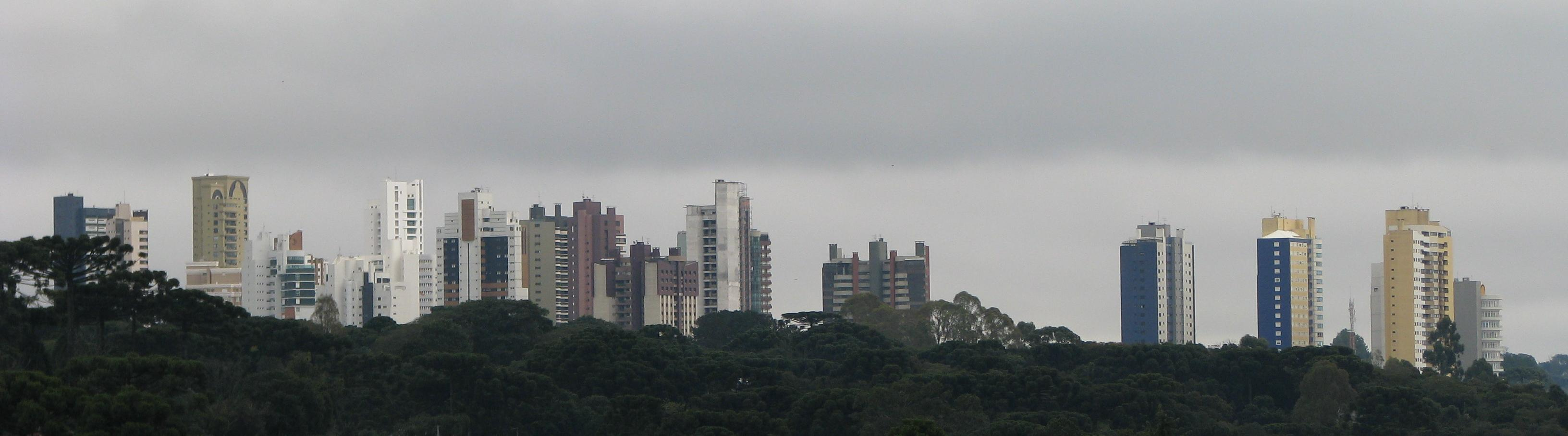 A view for Ecoville, Curitiba.